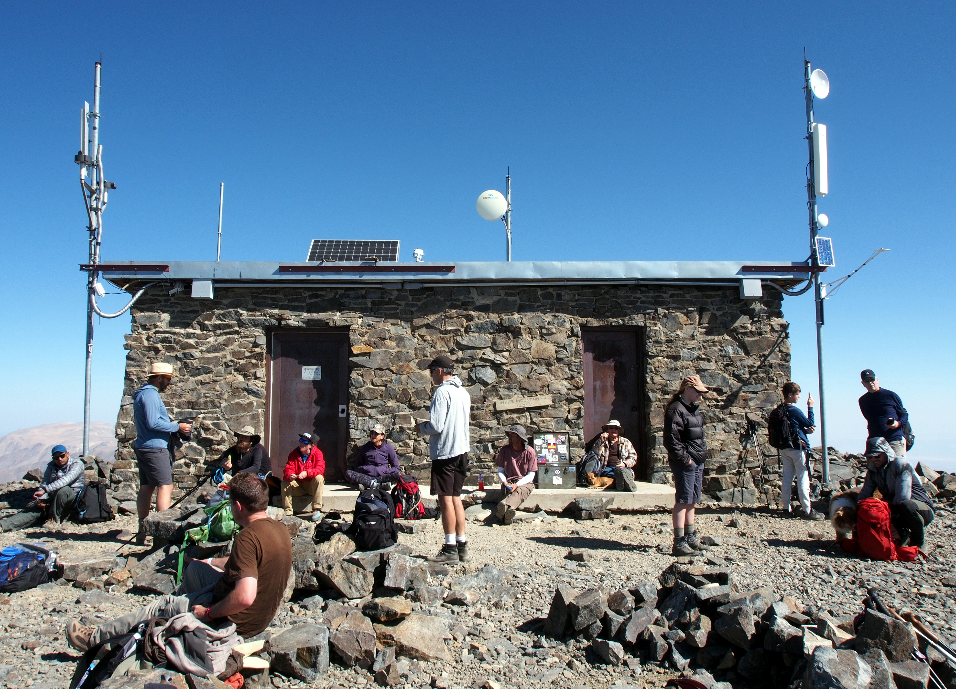 White Mountain Peak Summit Laboratory (University of California). Image was captured on the White Mountain Research Center Barcroft Station Open Gate Day, 2 September 2018.